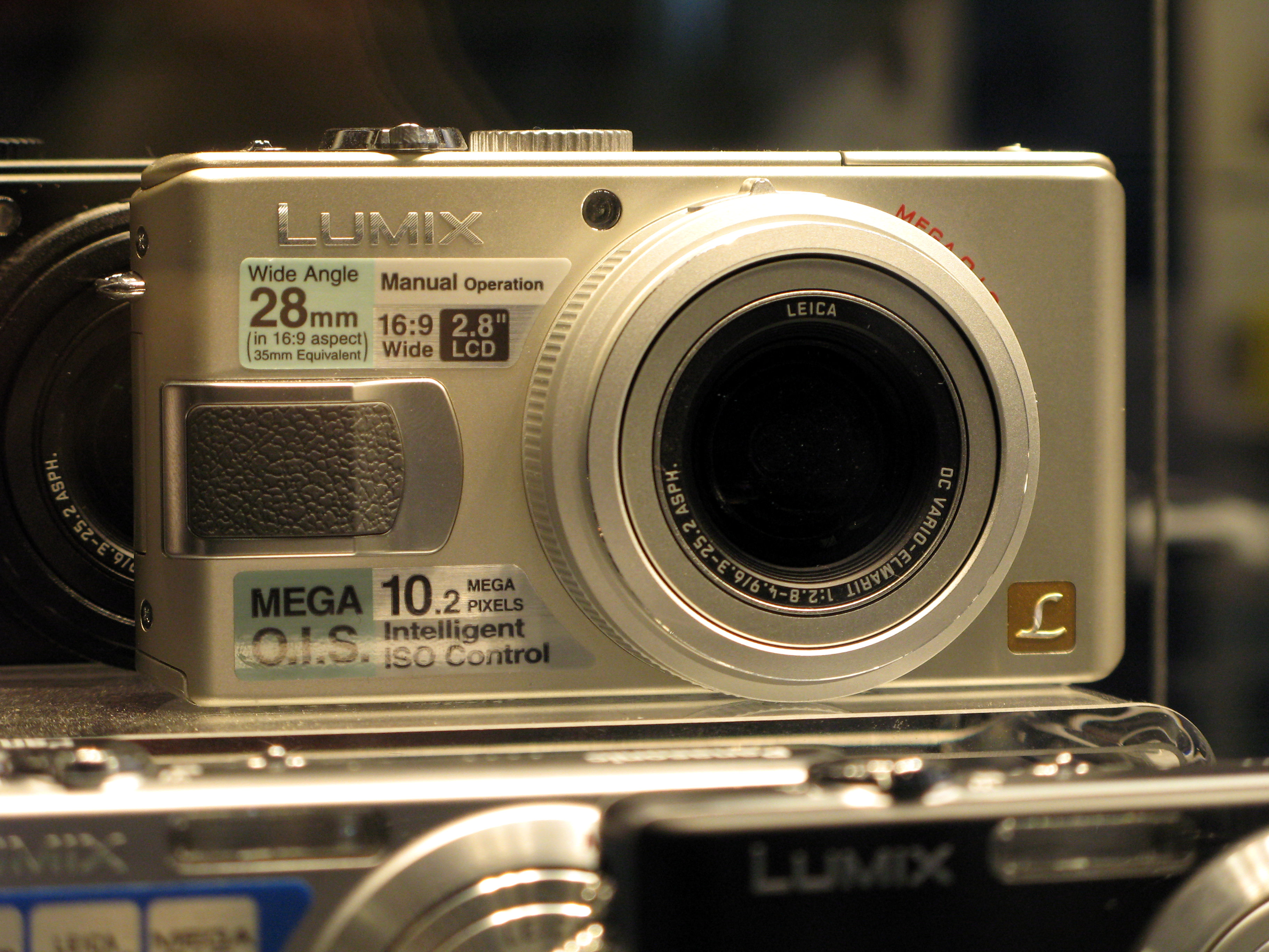 Panasonic Lumix DMC-LX2 digital camera